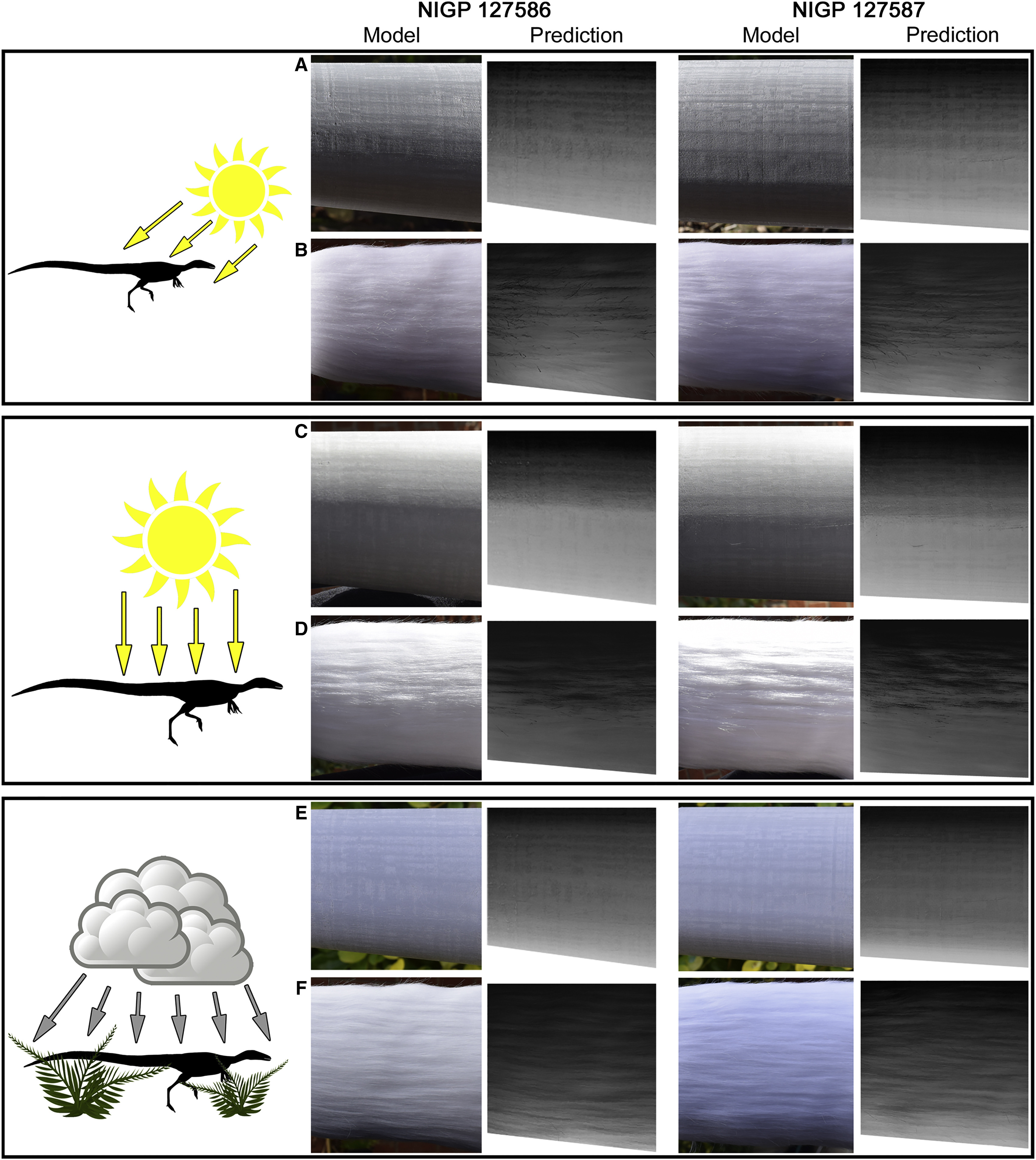 Figure 4 The Differing Pattern of Predicted Self-Shadowing in Sinosauropteryx 3D models of the abdomen of NIGP 127586 and NIGP 127587 imaged under different lighting conditions. “Model” represents the original photographs taken of the models to show how the self-shadows are cast across each, with and without synthetic fur added as a feather analog. “Prediction” shows how a gradient of pigment dorsoventrally would be expected to perfectly counterbalance the illumination gradient caused by self-shadowing. (A and B) Direct sunlight at an altitude of around 30° on smooth and “feathered” models. (C and D) Direct sunlight at an altitude of 90° on smooth and “feathered” models. (E and F) Diffuse lighting under 100% cloud cover (which equates to a closed environment) on smooth and “feathered” models. The ventral position and sharpness of the predicted countershading transition can be seen to be higher and sharper under overhead direct lighting, indicative of an open environment (C and D), whereas under diffuse lighting, representing a closed habitat, the transition is lower and more gradual (E and F).